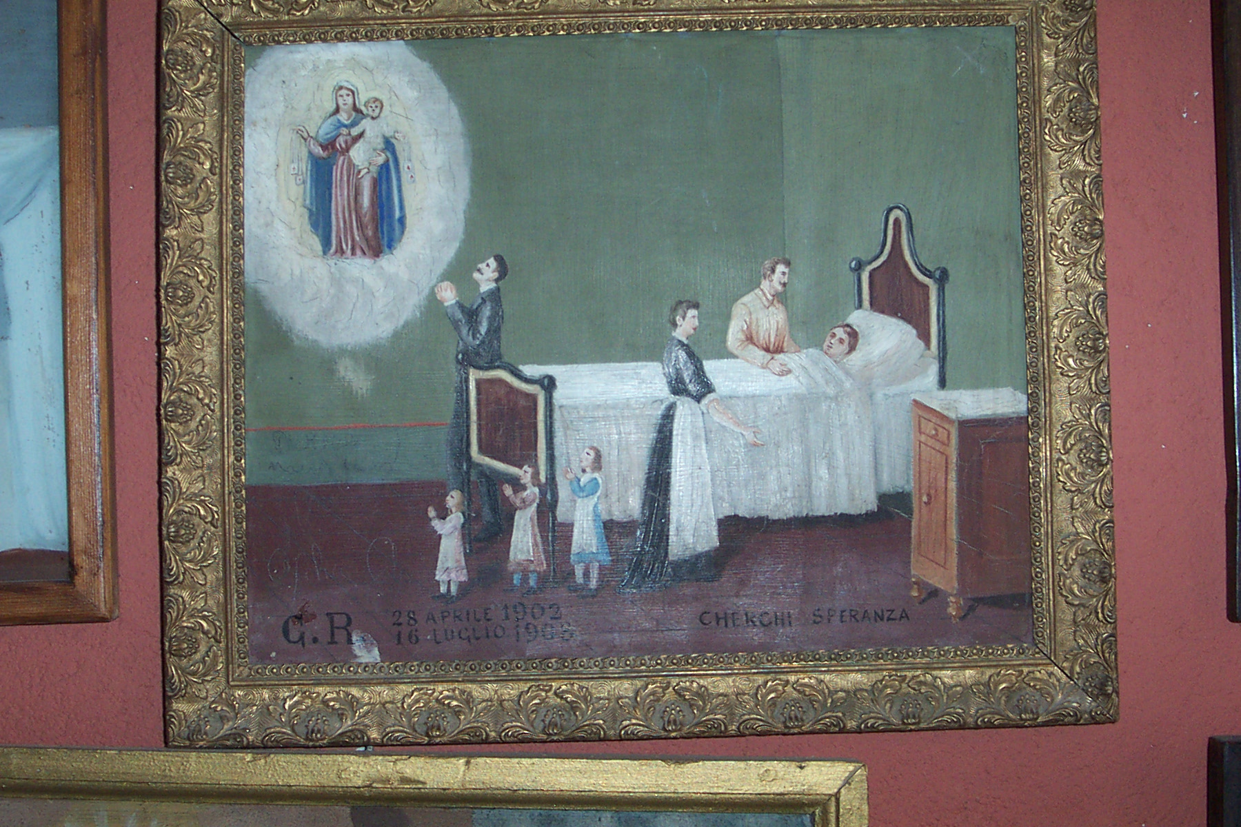 Ex-voto at Notre Dame de Laghet (La Trinité, Alpes Maritimes, France)